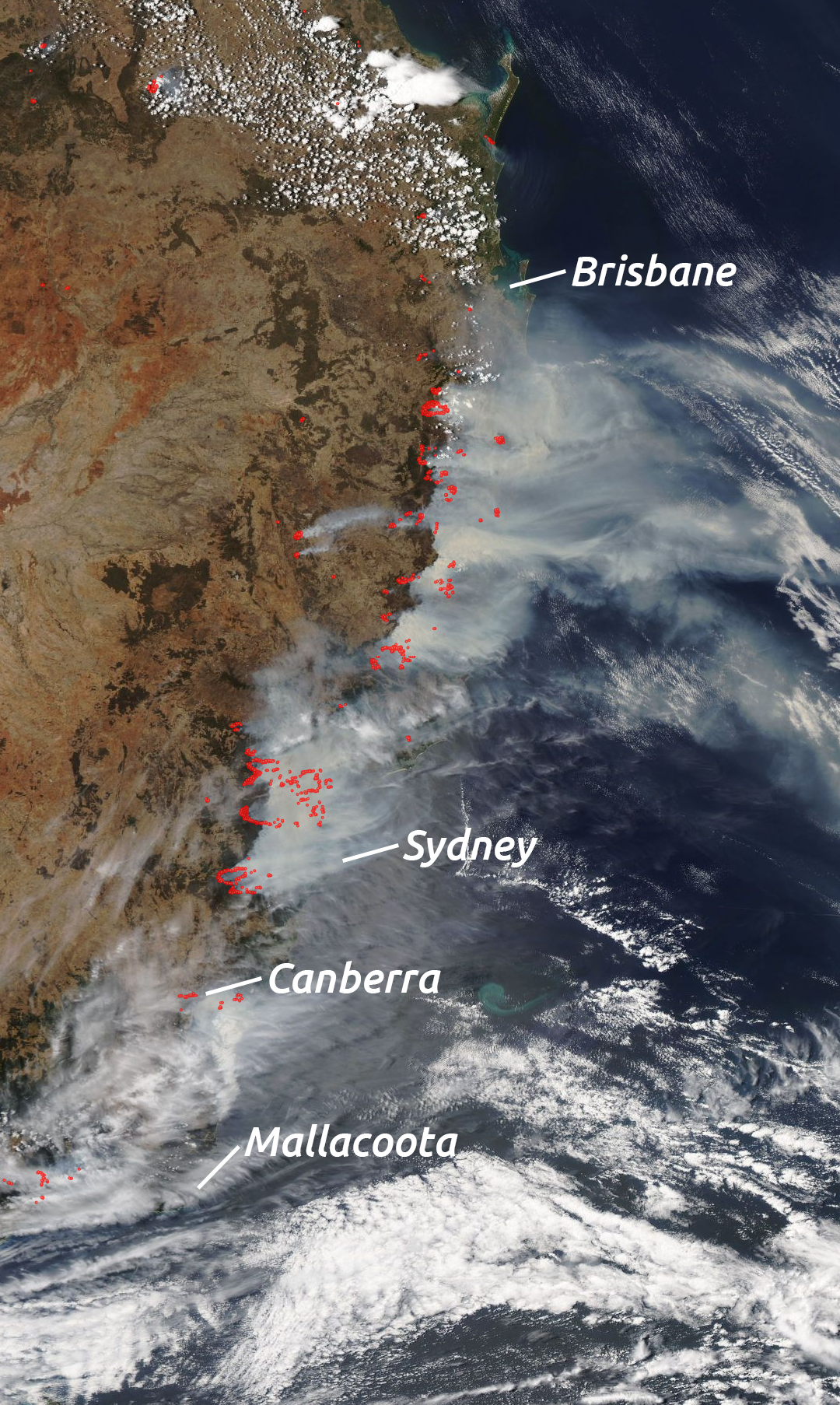 Imagery from NASA Aqua Satellite showing MODIS & VIIRS data of Australian bushfires. Highlighted in red are fire detections, notable landmarks labeled. We acknowledge the use of imagery from the NASA Worldview application ( part of the NASA Earth Observing System Data and Information System (EOSDIS).